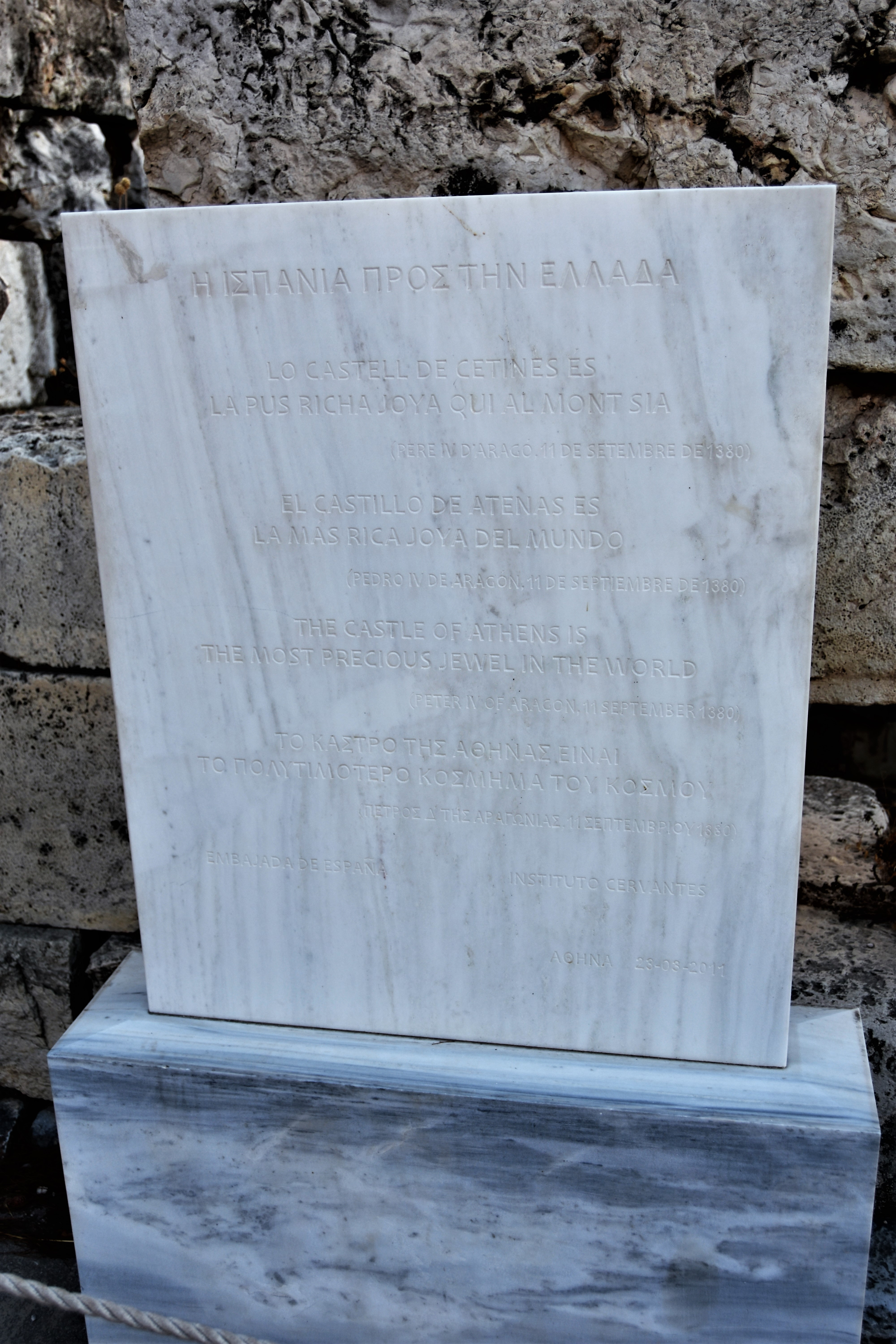 Acropolis. Beule Gate. Commemorative plaque set in 2011. Refers to the praise to the Acropolis by king Peter IV of Aragon (1380). in catalan, spanish, english and greek.